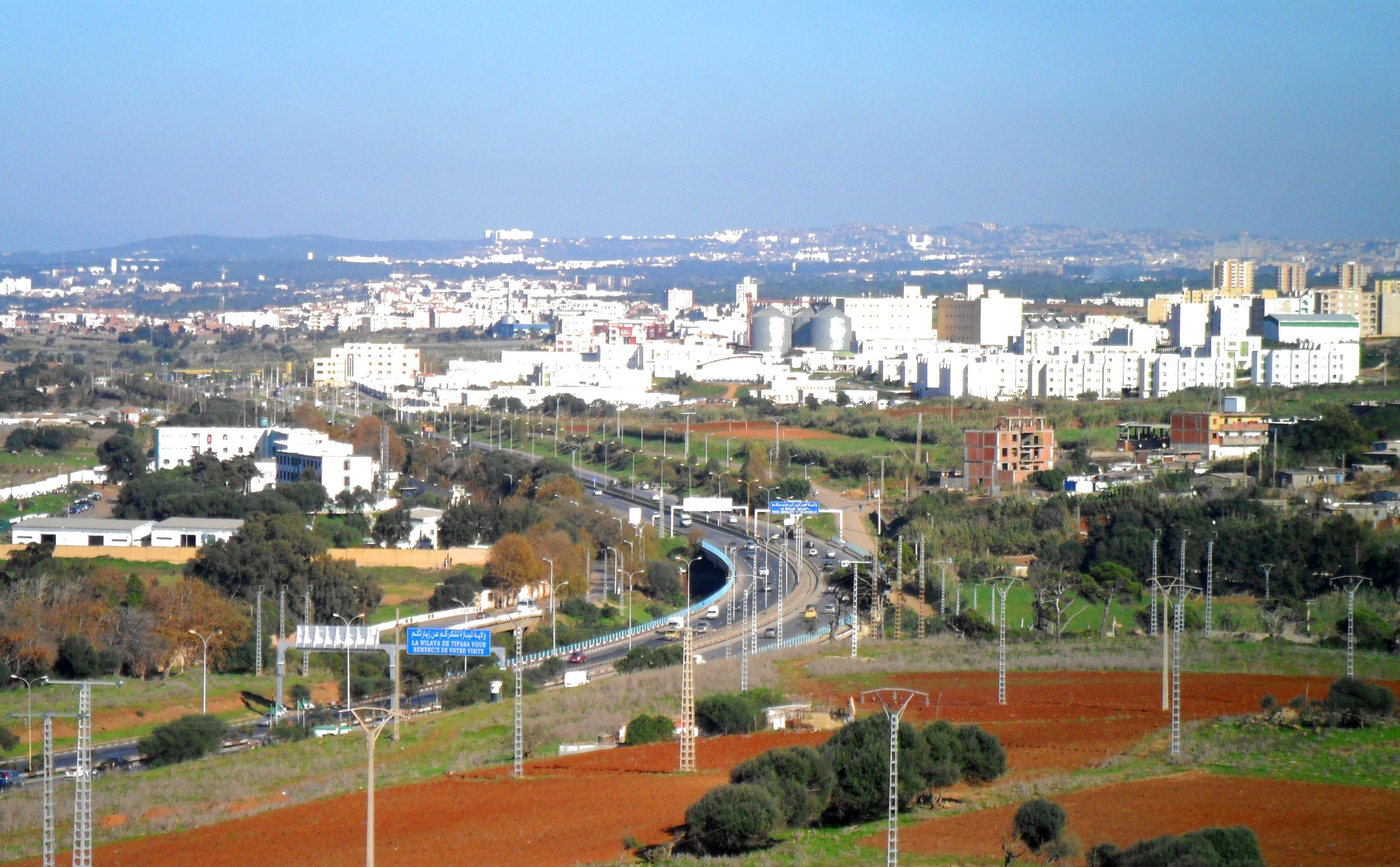 Mzafran مزفران